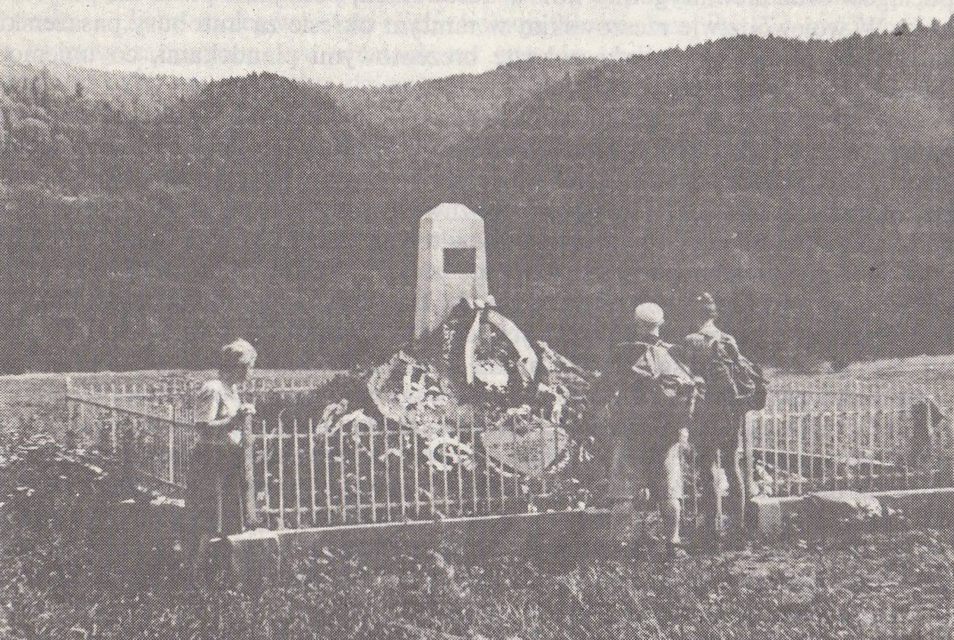 Old monument of Karol Świerczewski in Jabłonki - place where he was killed